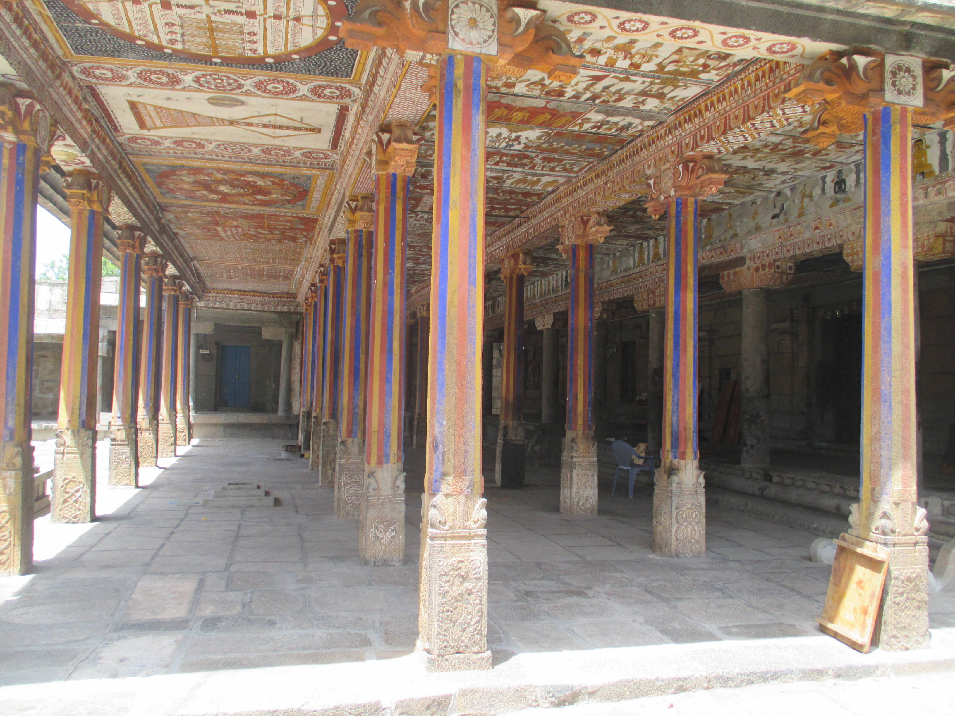 Tiruparuthikundram